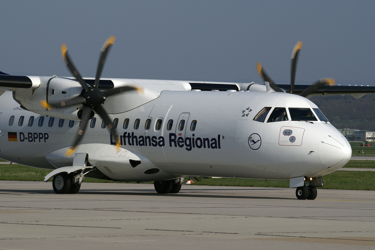 Contact Air/Lufthansa Regional ATR 42 (D-BPPP) Stuttgart Airport